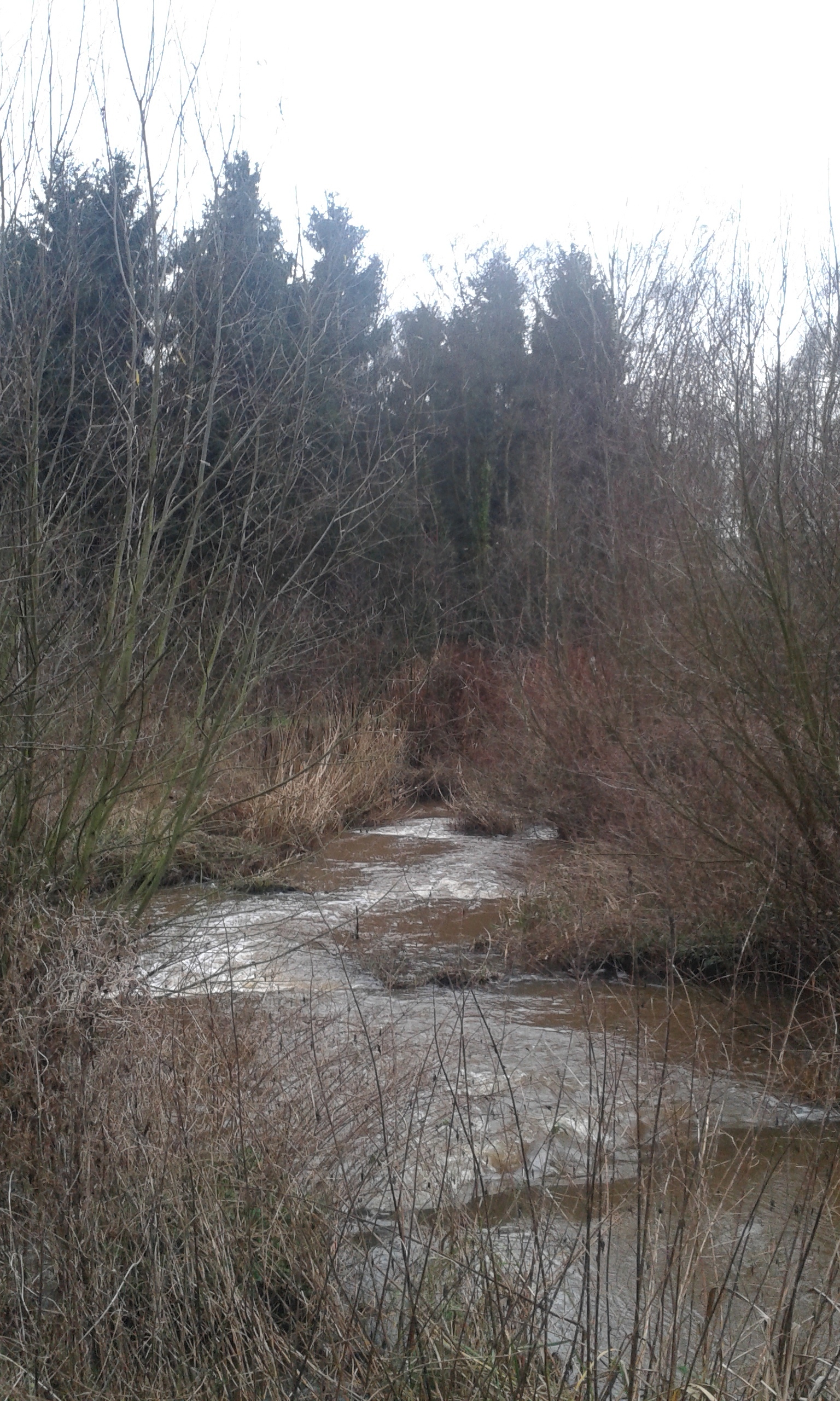 vistrap Herentals